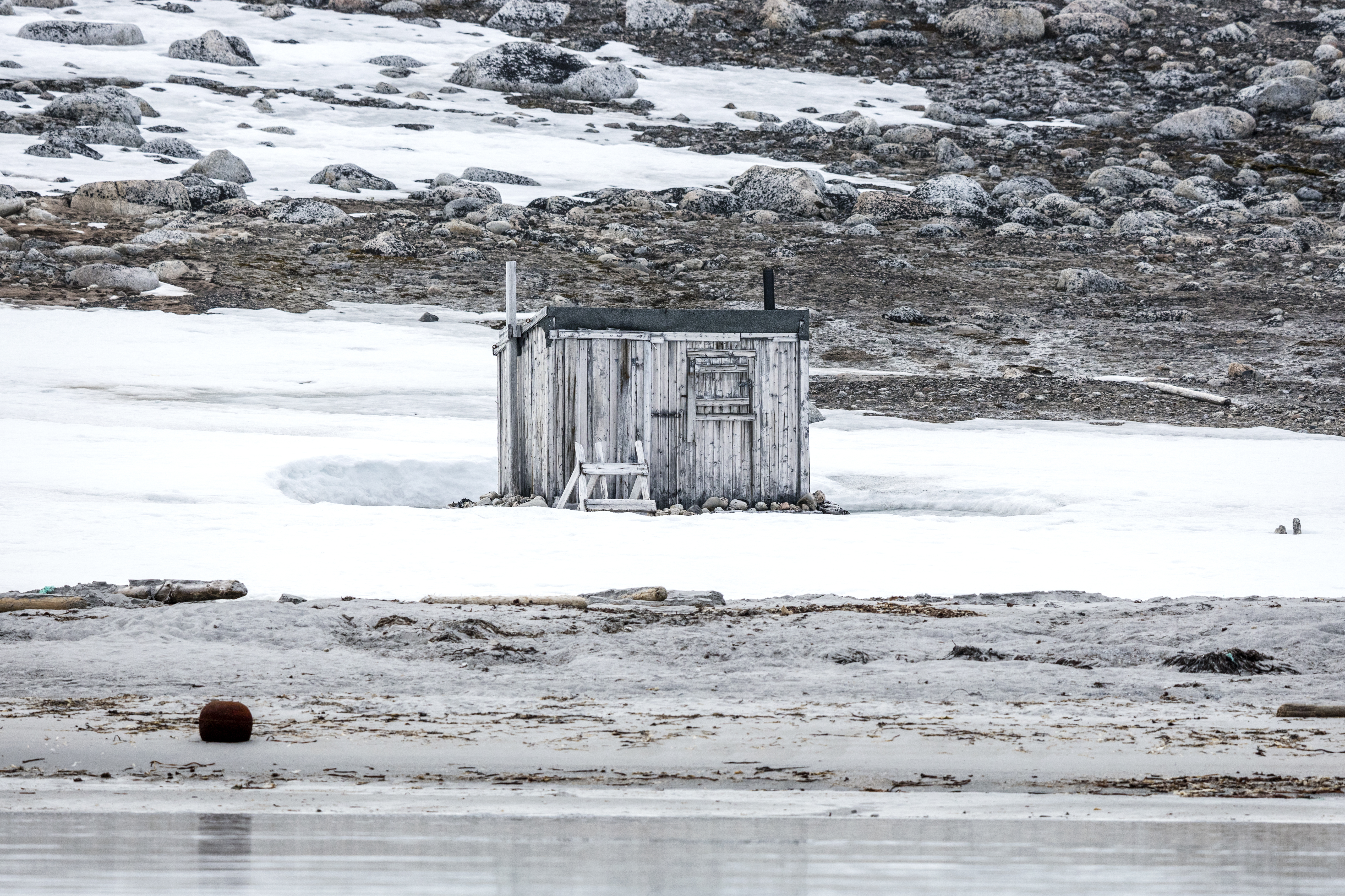 Wooden hut on the southern bay of Phippsøya, one of the Sjuøyane islands in the most northern part of Svalbard